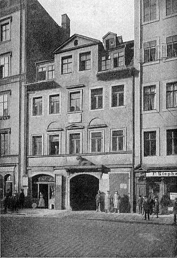 Wagner's birthplace in the Bruhl, Leipzig